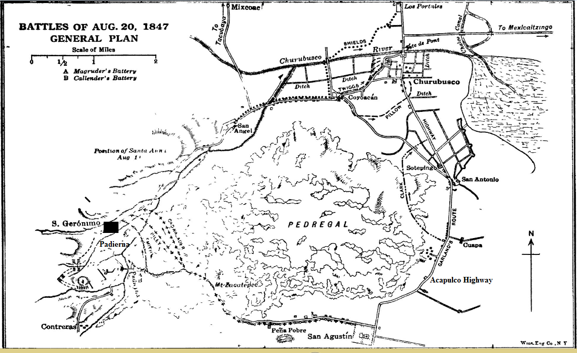 Area around Padierna and roads north to Churubusco (Justin H. Smith, “The War With Mexico” Vol. II), published in 1919